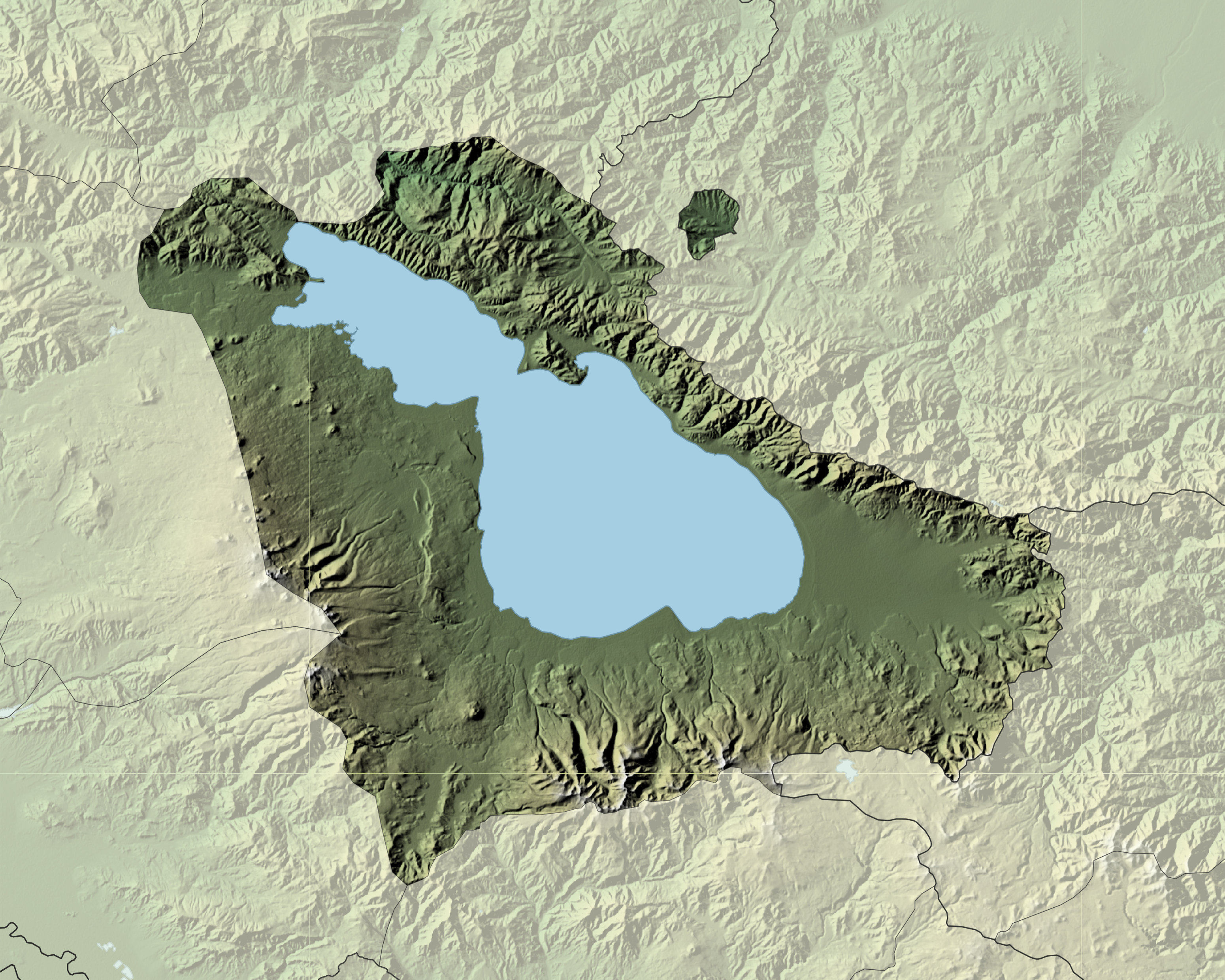 Hillshaded map of Gegharkunik province of Armenia